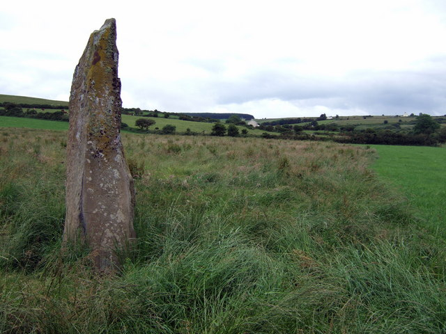 Budloy standing stone Single stone about 8 feet high in fields southwest of Rosebush, with footpath access close by. This view looking northeast towards the B4313 on the skyline. The field in which the stone stands is known as Parc-y-post.